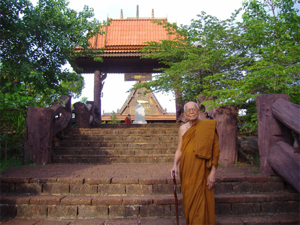 Photo of the Vispassana master Achan Sobin S. Namto